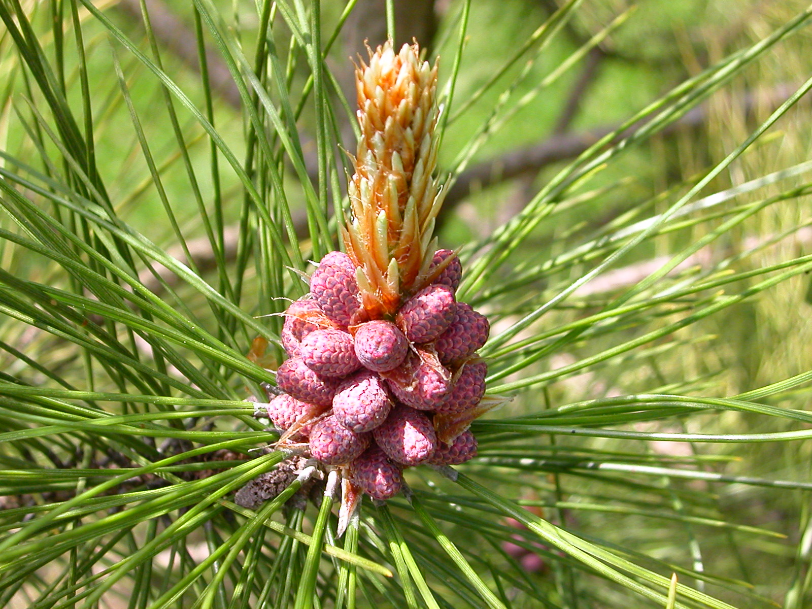 Pollen cones of Red Pine - Pinus resinosa